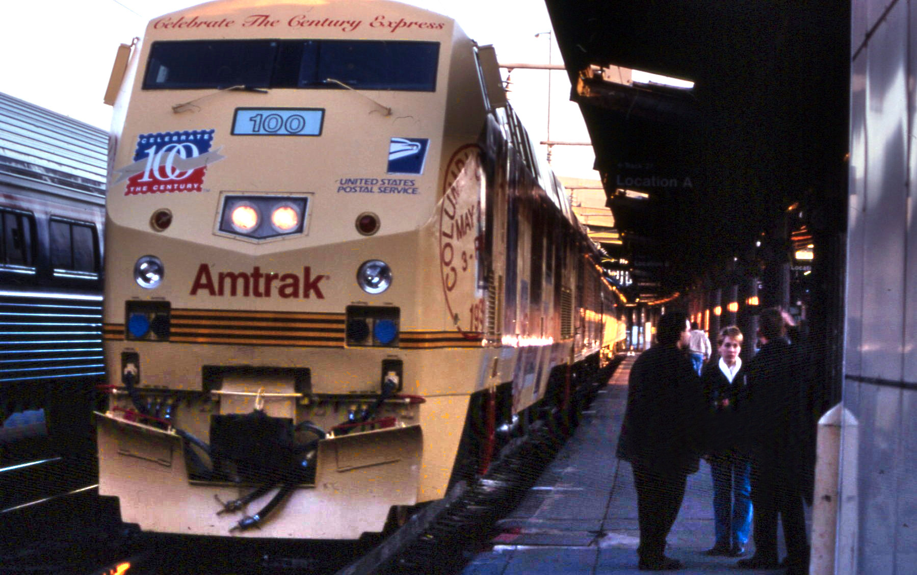 Amtrak and the United States Postal Service operated an exhibition train called the Century Express. I rode it from Washington D.C. to Savannah, Georgia.